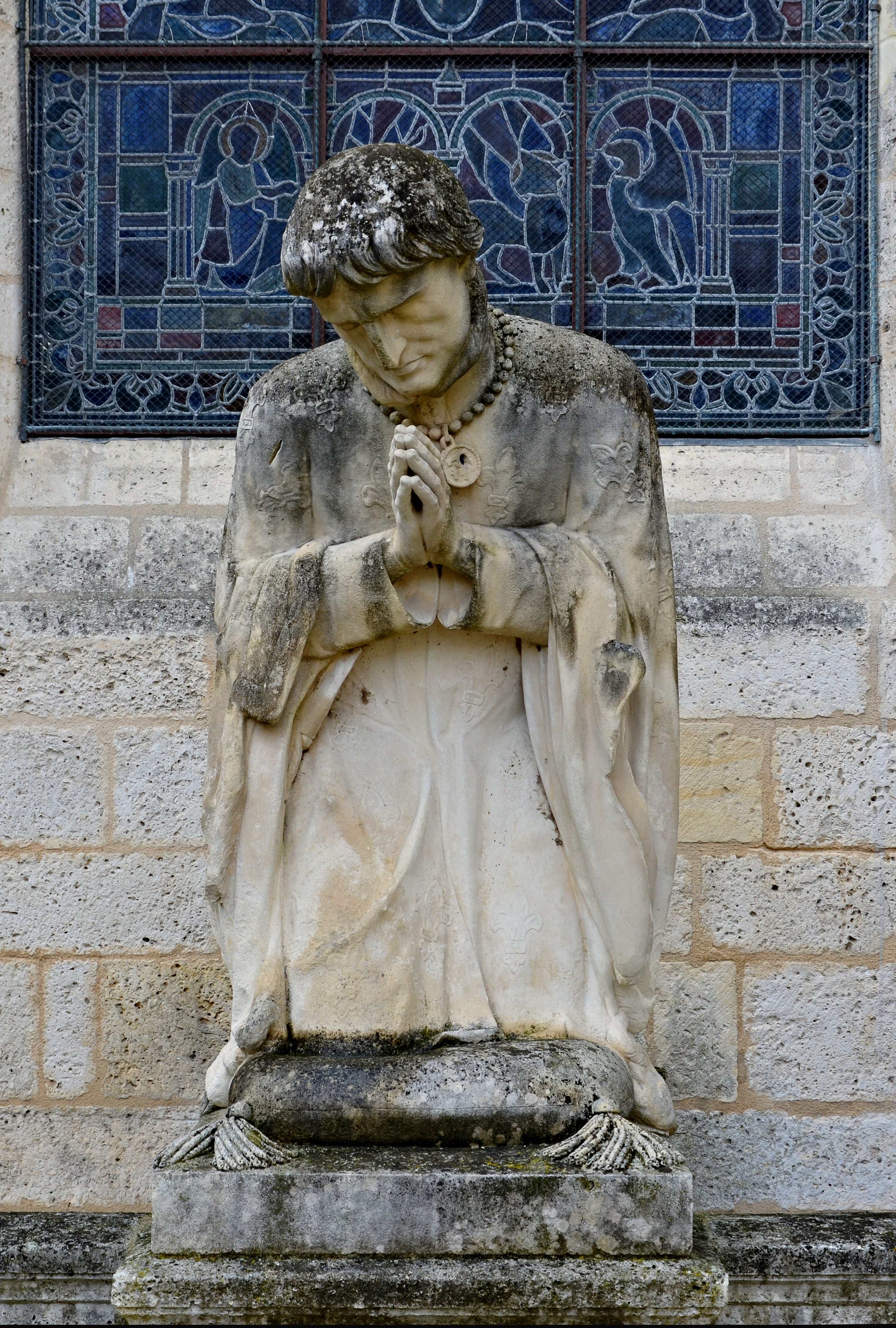 Statue (1876) of Jean d'Orléans, count of Angoulême (1399-1467), by Gustave-Louis Gaudran, behind the apse of the cathedral, Angoulême, Charente, France.